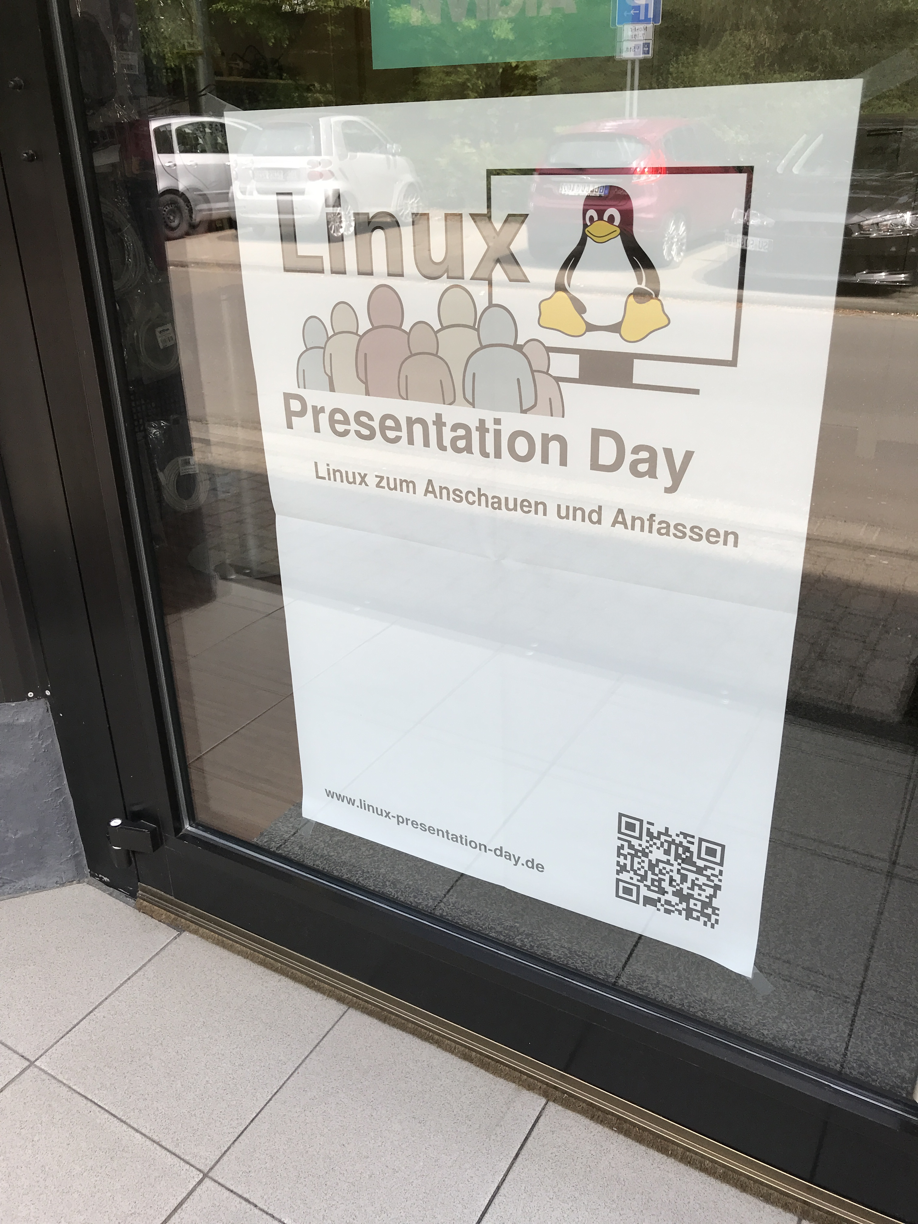 Typical event sign Linux-Presentation-Day